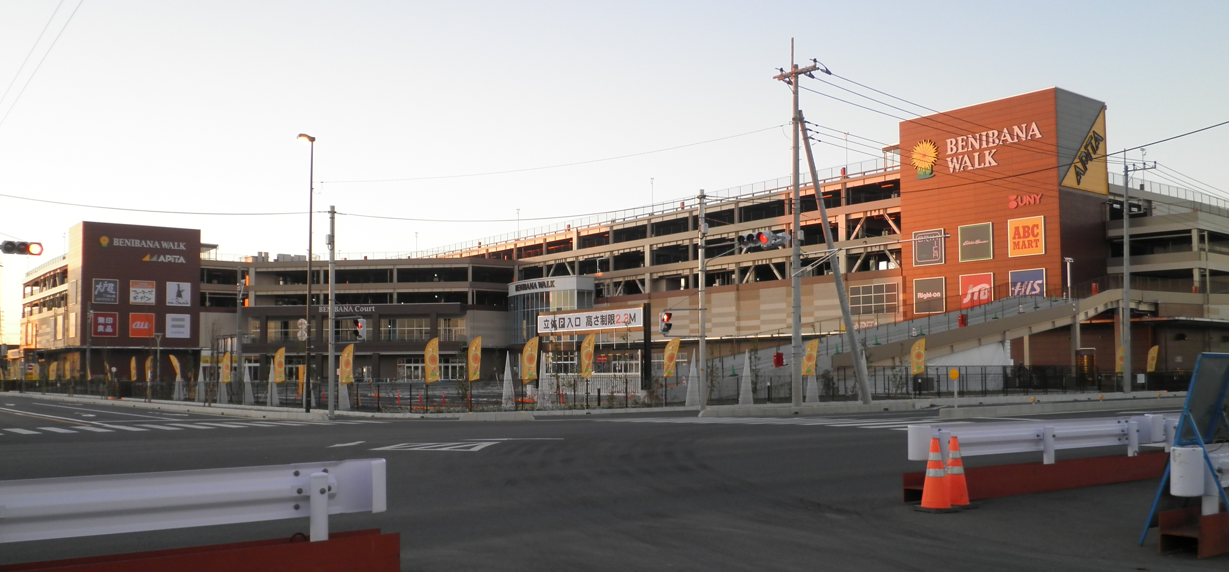 BENIBANA WALK OKEGAWA Shopping Center in Saitama, Japan.